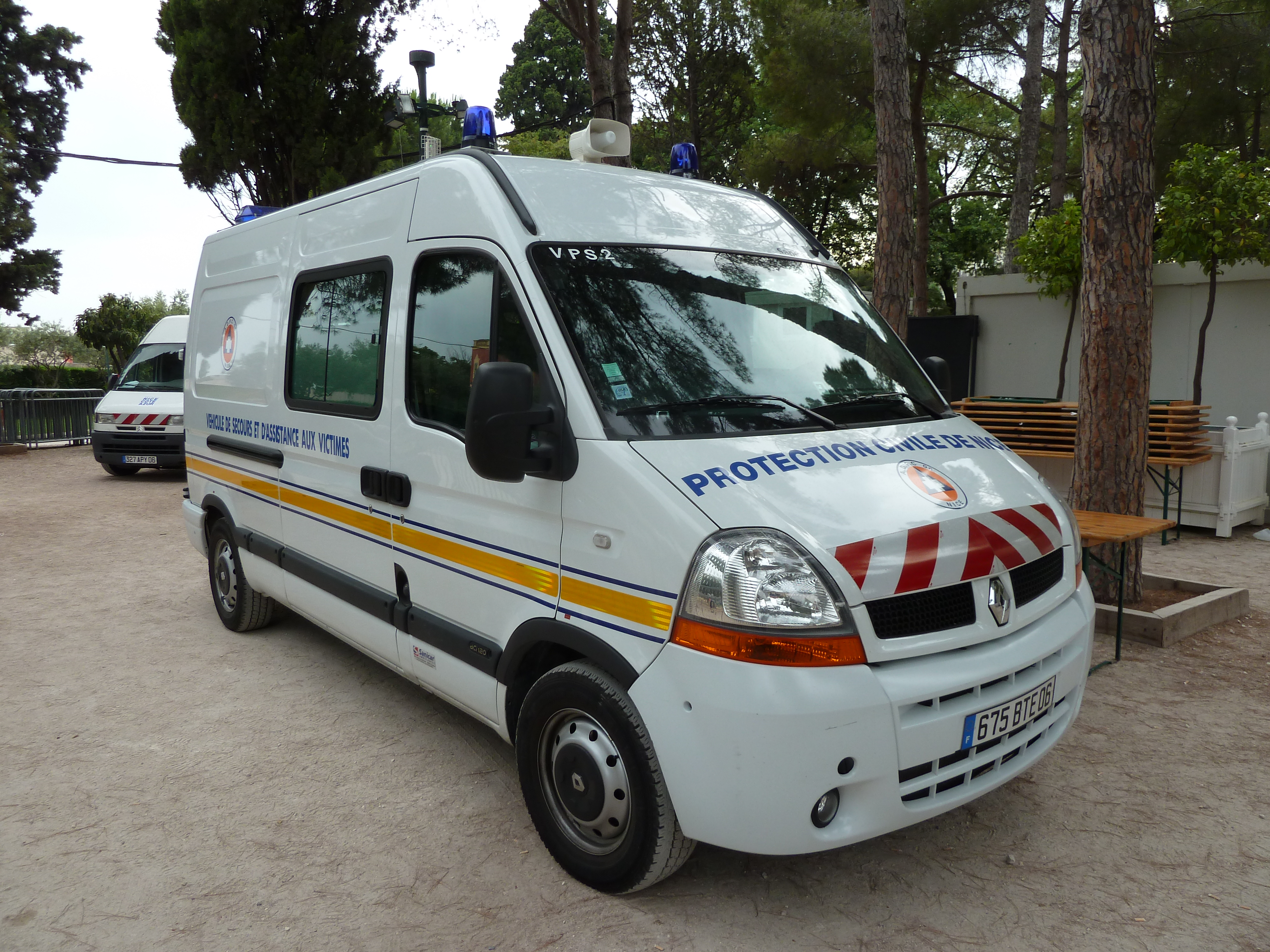 Ambulance of french civil protection in Nice